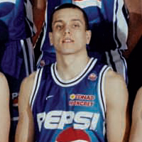 Photo taken and released on Wikimedia directly by the basketball club.